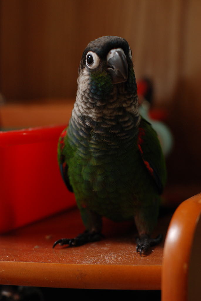 Pearly Parakeet (Pyrrhura lepida) also known as the Pearly Conure in aviculture. A pet parrot.